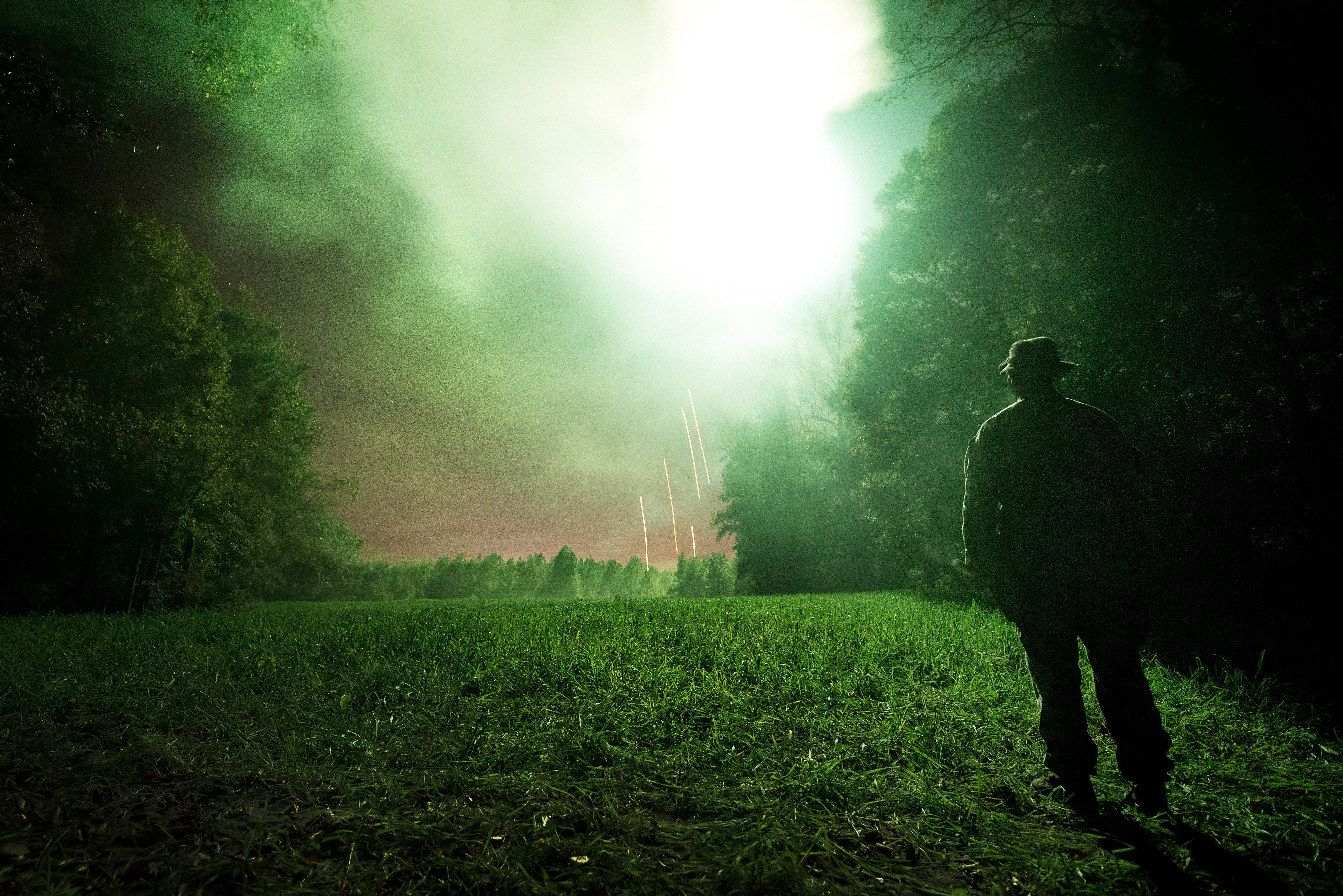 An infantry instructor scans a field for enemies after firing a green star cluster flare during patrol week of Infantry Training Battalion near Camp Geiger, N.C. on Oct. 31, 2013. Patrol week is a five-day training event that teaches infantry students basic offensive, defensive and patrolling techniques. Delta Company is the first infantry training company to fully integrate female Marines into an entire training cycle. This and future companies will evaluate the performance of female Marines as part of ongoing research into opening combat-related job fields to women. (U.S. Marine Corps photo by Sgt. Tyler L. Main/Released)